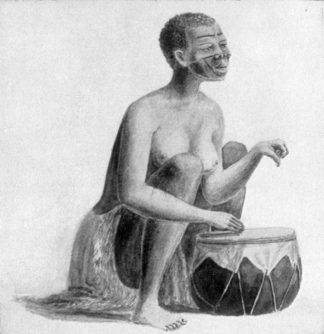 Watercolor painting by Charles Davidson Bell: Hottentot woman playing upon the khais